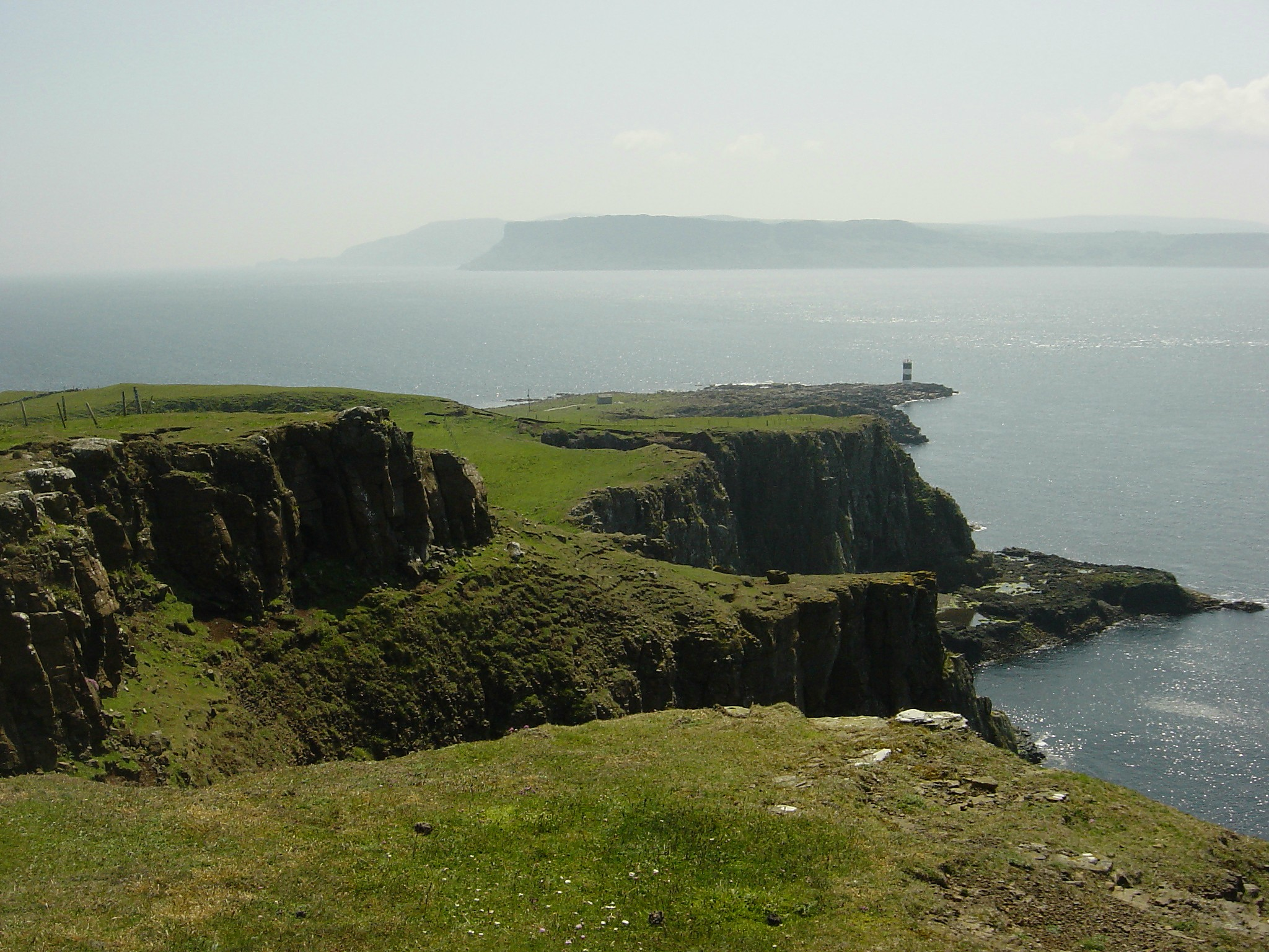 South leg of Rathlin Island looking towards Fair Head